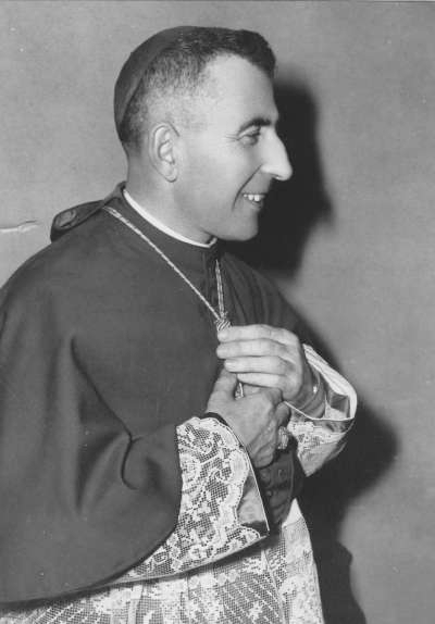 Albino Luciani, ordained bishop of the Diocese of Vittorio Veneto, Italy (27 December 1958). 1959 photo.